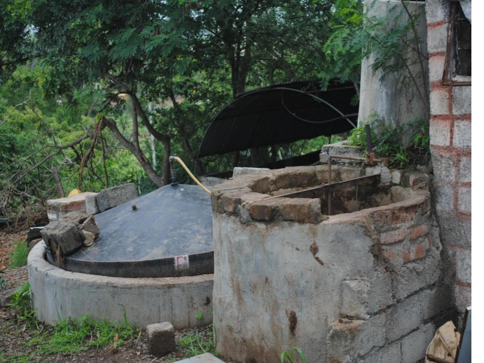 biogas in vigyan ashram